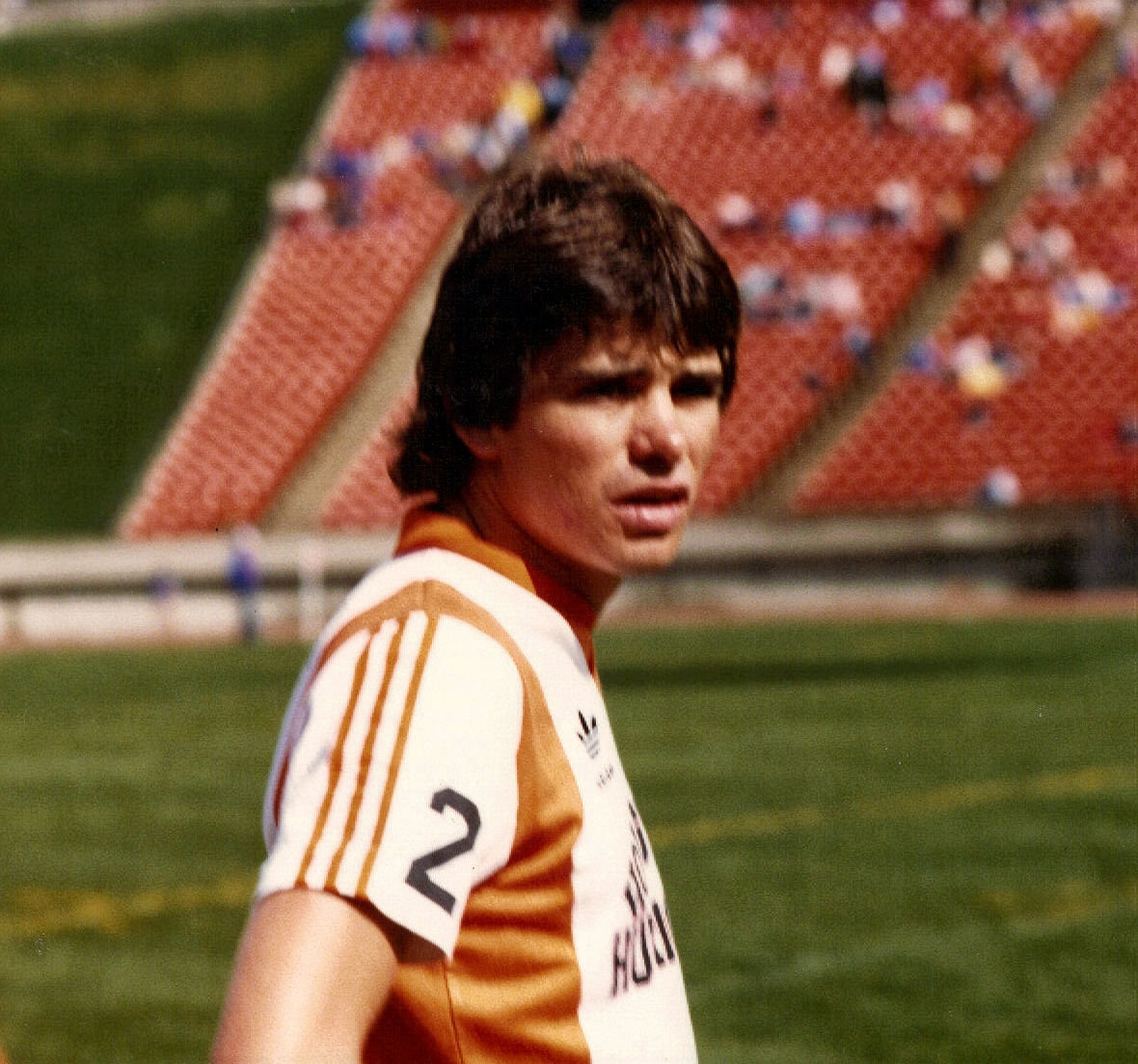 Scottish Footballer Ian Anderson, pictured playing for Houston Hurricane.